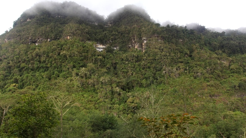 High jungle forest, Cuispes, Chachapoyas, Peru.